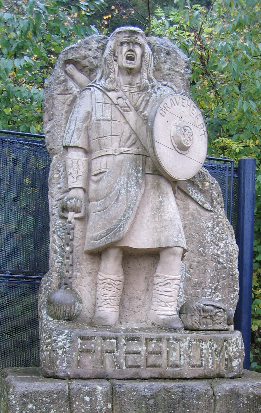 Tom Church's statue "Freedom" near the Wallace Monument.